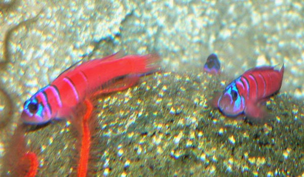 Photo of Lythrypnus dalli at the Birch Aquarium in San Diego